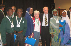 Nigerian exchange students meet Nobel Prize winner Dr. Norman Borlaug (third from right) at the World Food Prize International Symposium, 2003.